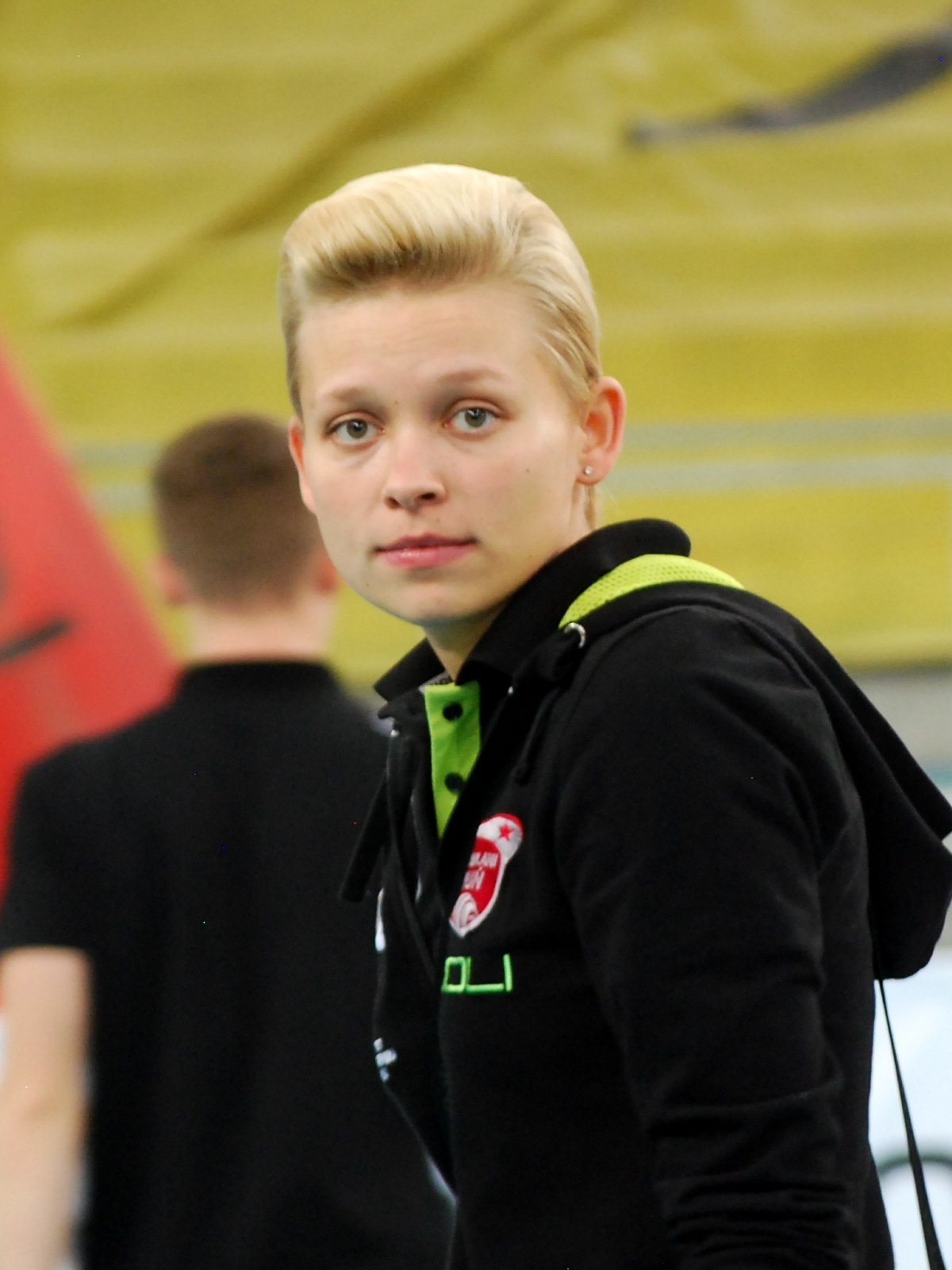 Gabriela Jasińska, volleyball player from Poland